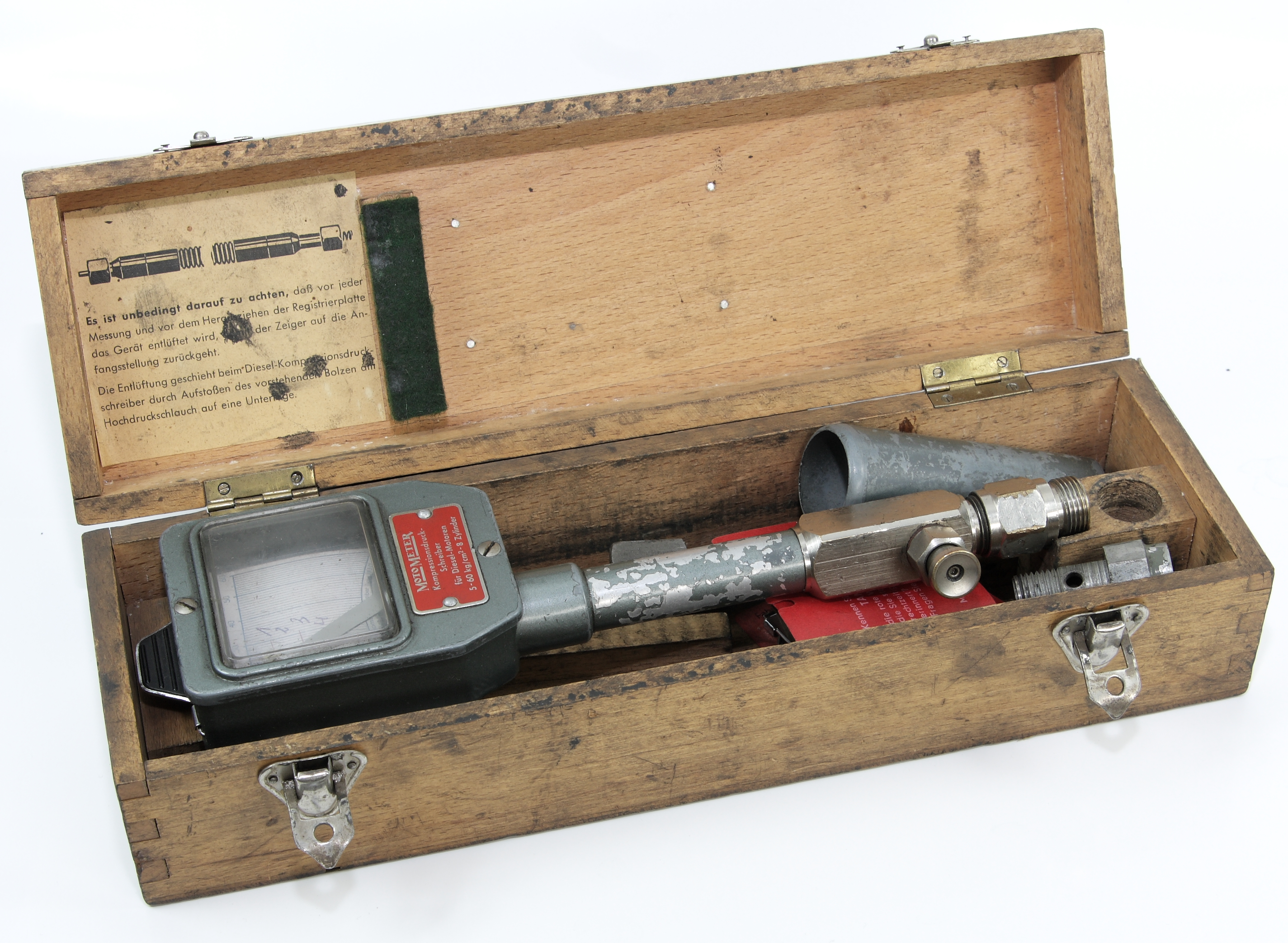 Compression pressure recorder